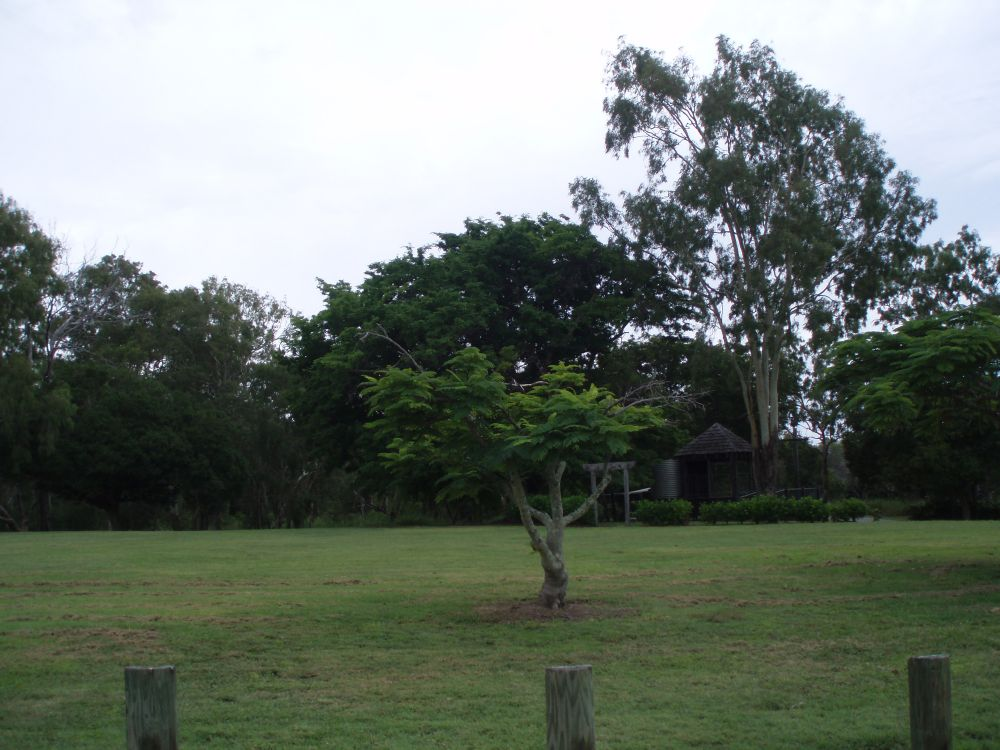 William Wyndhams gravesite and remnant orchard trees